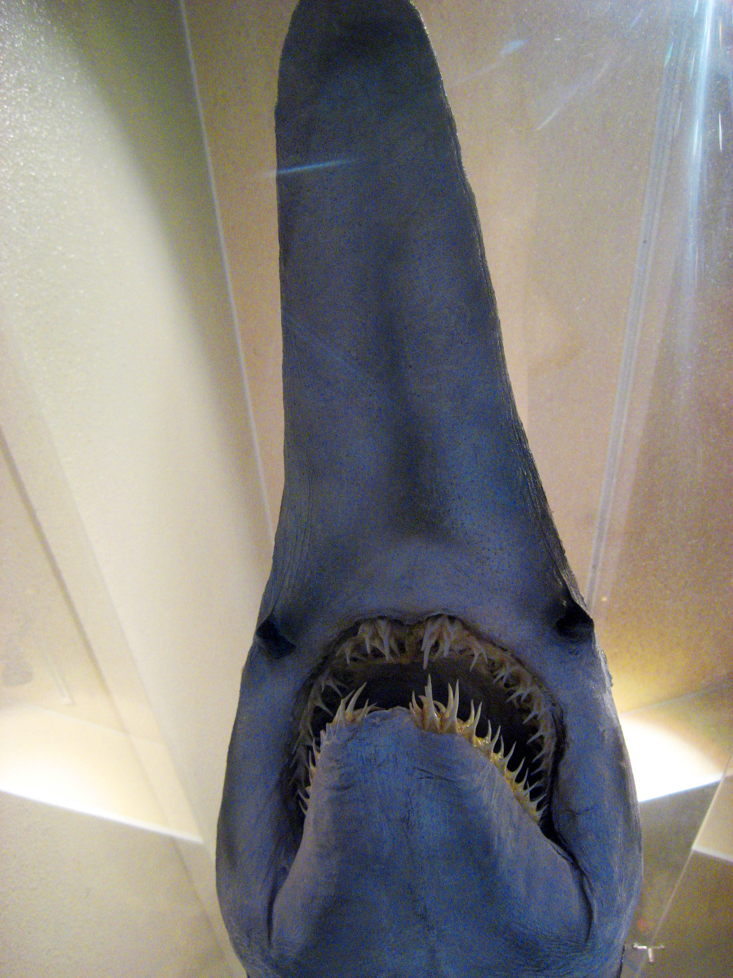 An underside view of the goblin shark's snout. From the Shinagawa Aquarium in Japan.